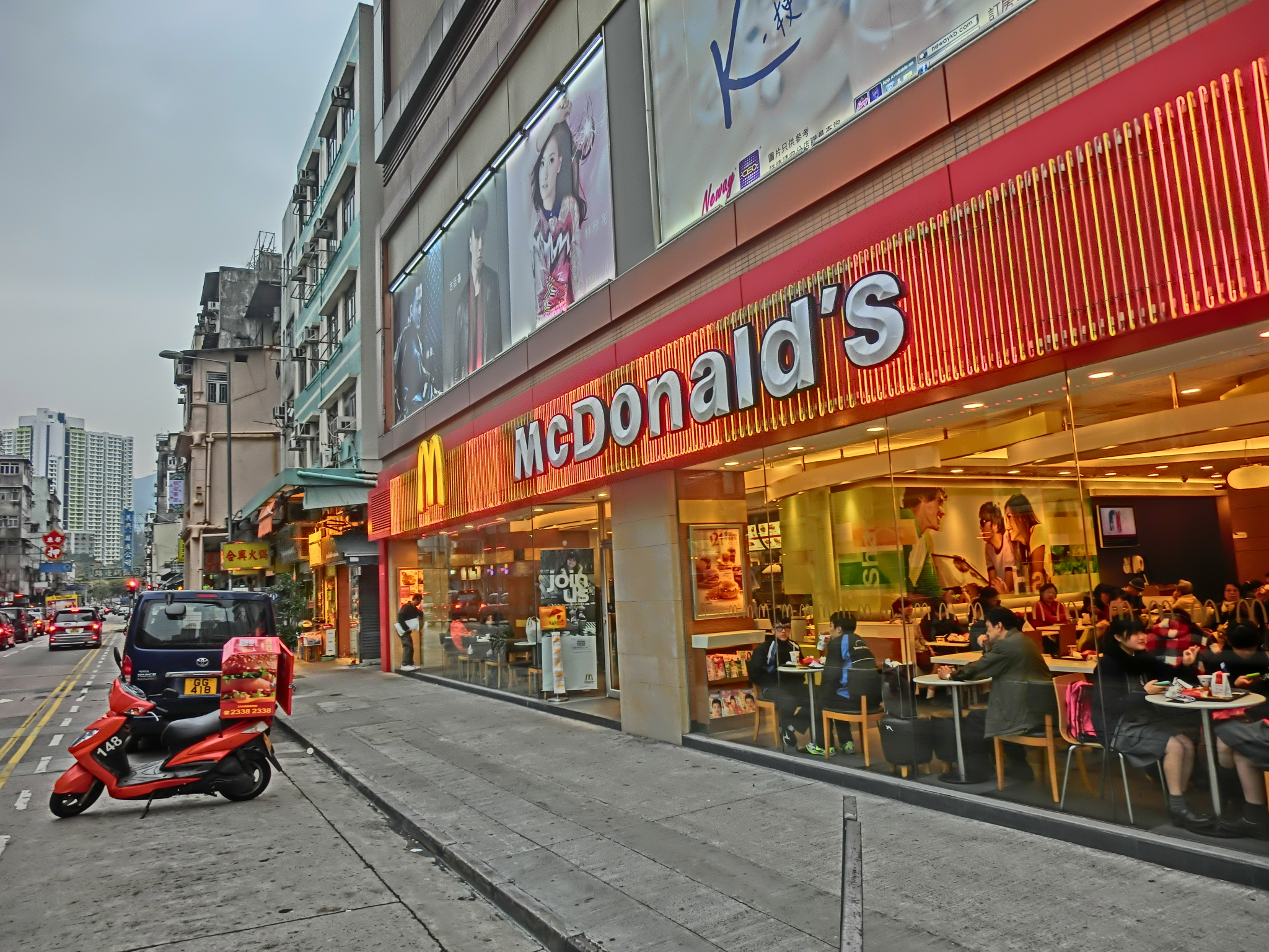 九龍城 Kowloon City 龍崗道, Lung Kong Road, Hong Kong